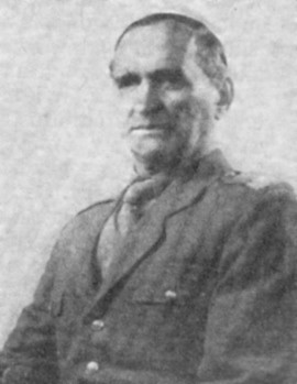 Polish and Soviet General Władysław Korczyc